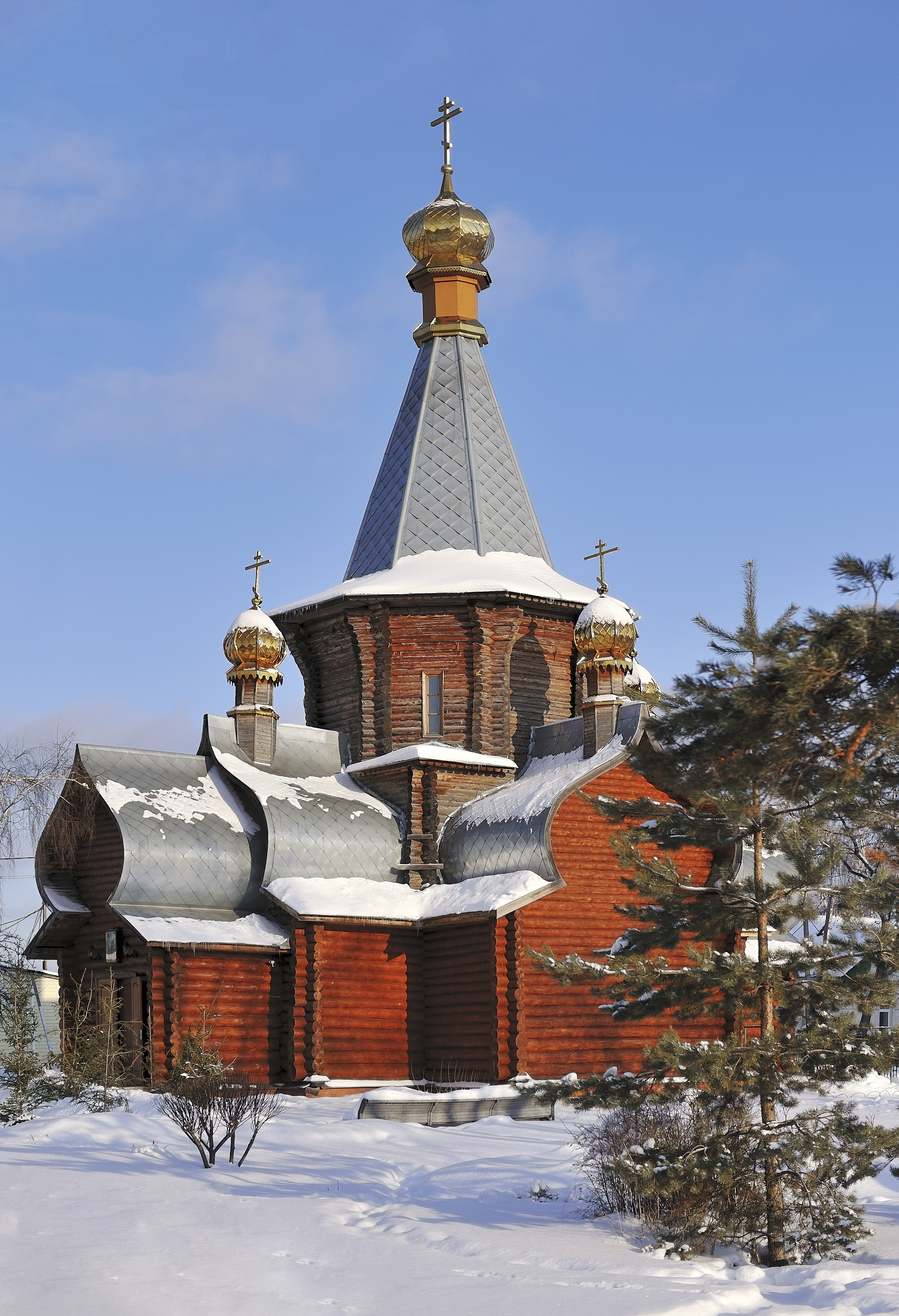 The Church of the Iviron Theotokos in Zhukovsky, Moscow Oblast.